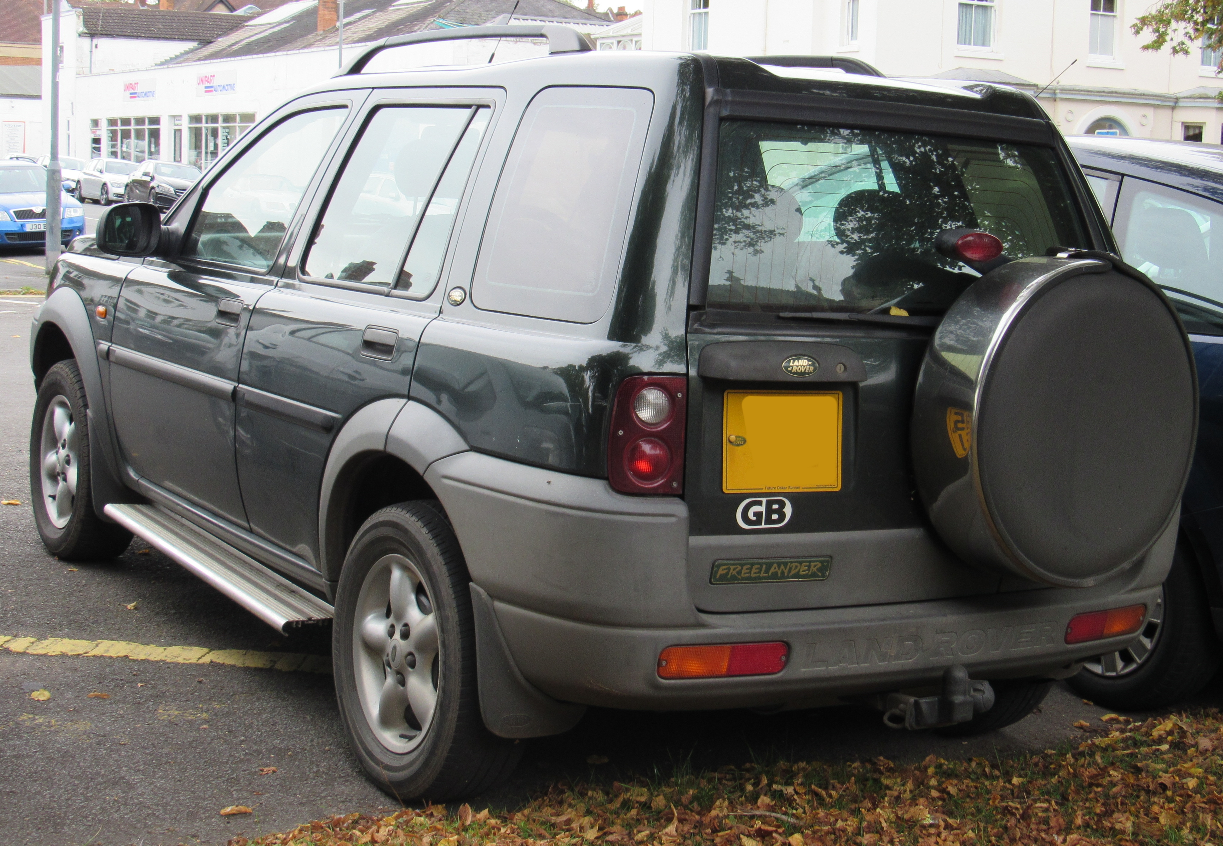 (Early R Reg) 1998 Land Rover Freelander Xedi S-Wagon 2.0 Rear Taken in Leamington Spa